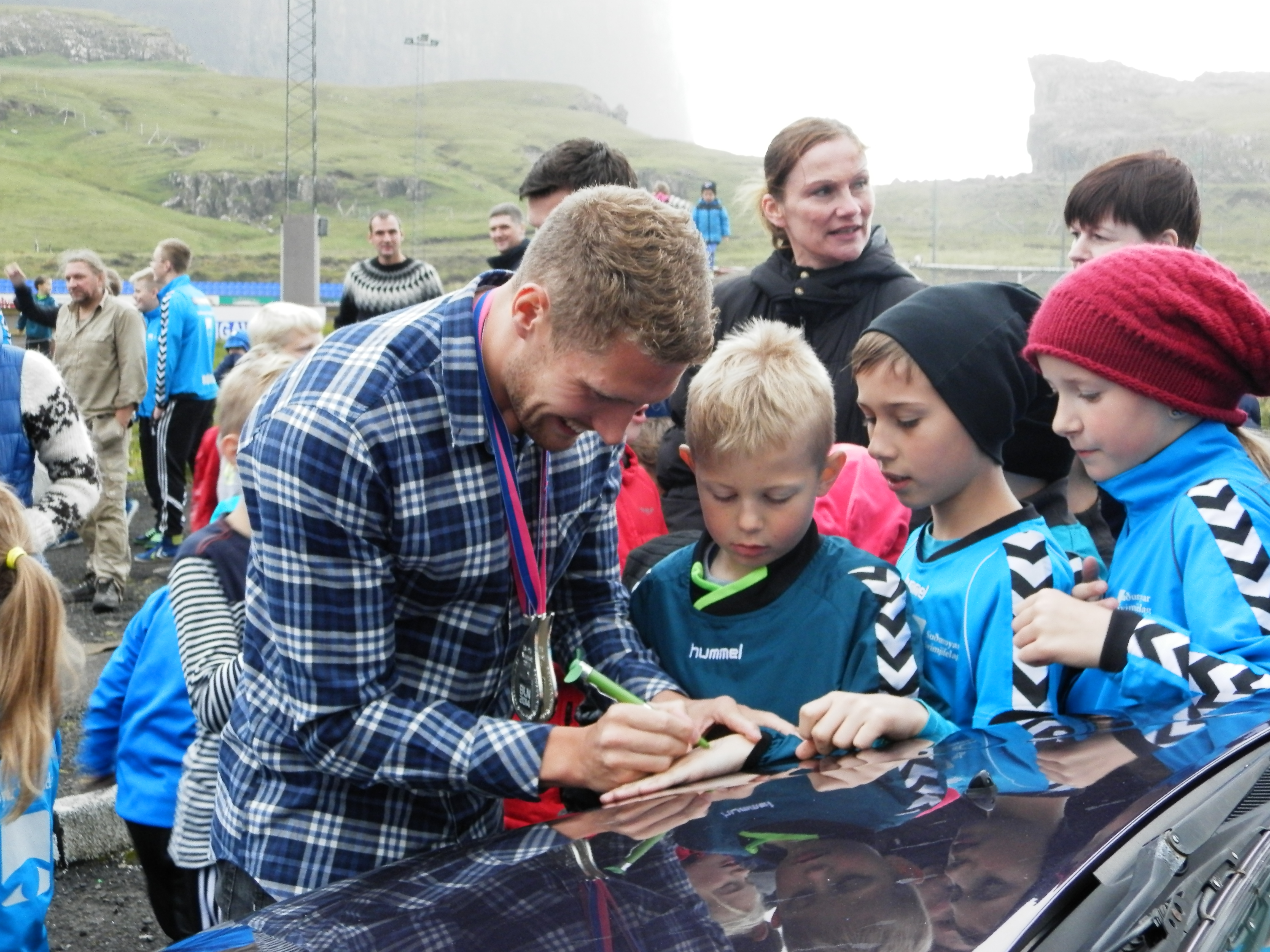 A few weeks after winning two silver medals at the European Aquatics Championships in Berlin Pál Joensen came to the Faroe Islands for at short visit. He was celebrated in Tórshavn and in his hometown Vágur. This photo was taken in Vágur while he was given his autographs to the children.